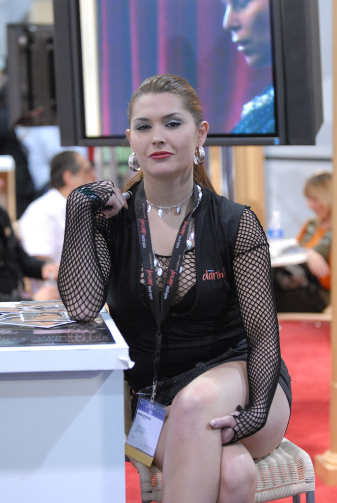 Sandy Cage at AVN Adult Entertainment Expo 2008